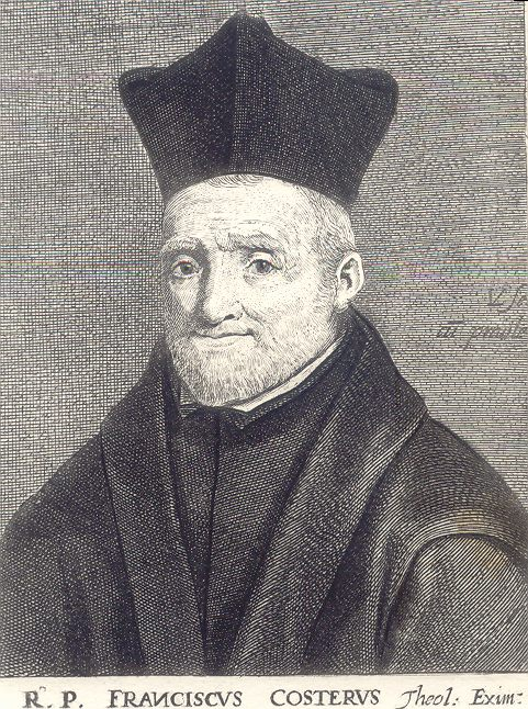 François Coster (ou Franciscus Costerus, Belgian Jesuit and famous preacher of the Counter-Reform in the Low-Countries.